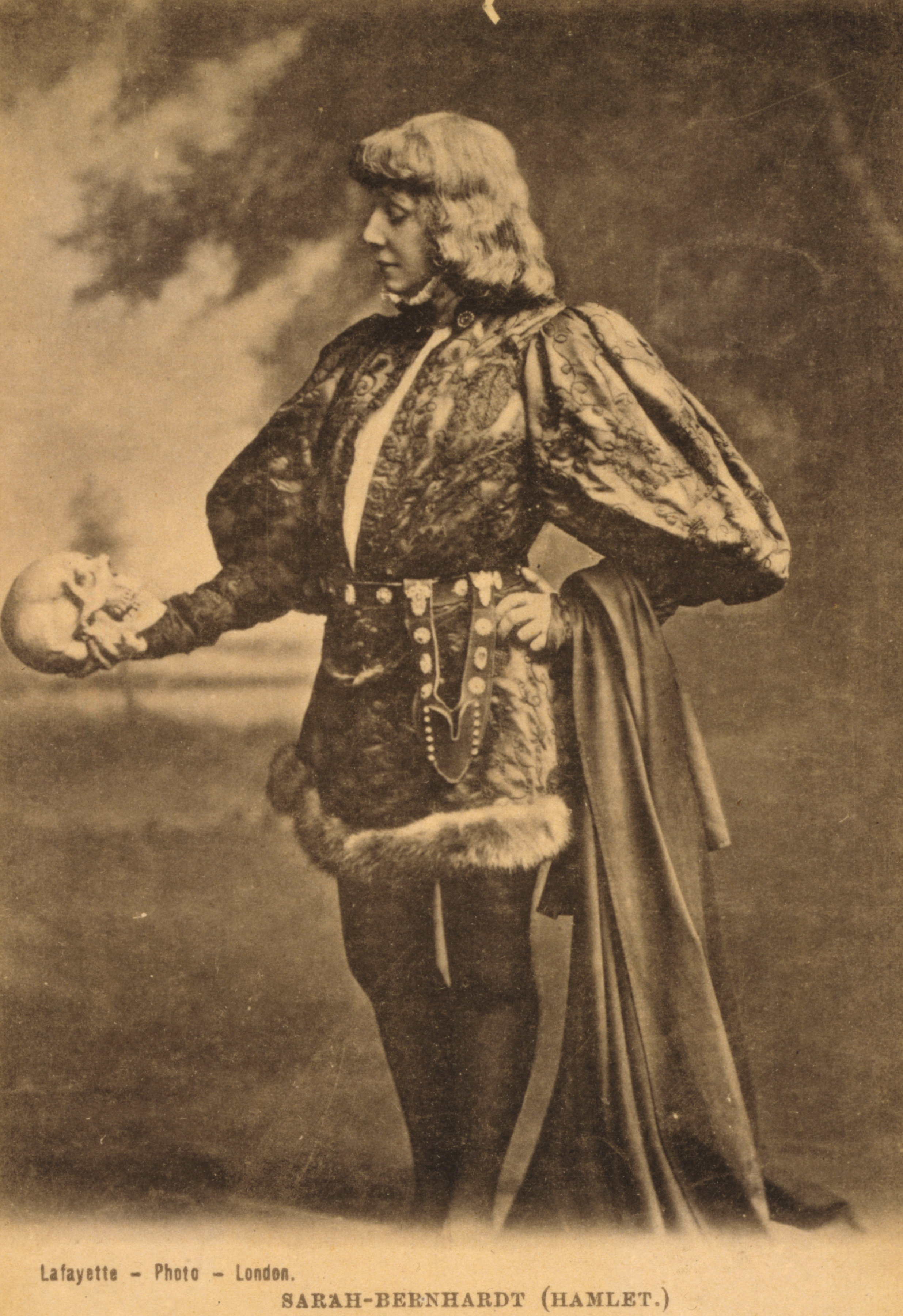 Portrait of Sarah Bernhardt as Hamlet.